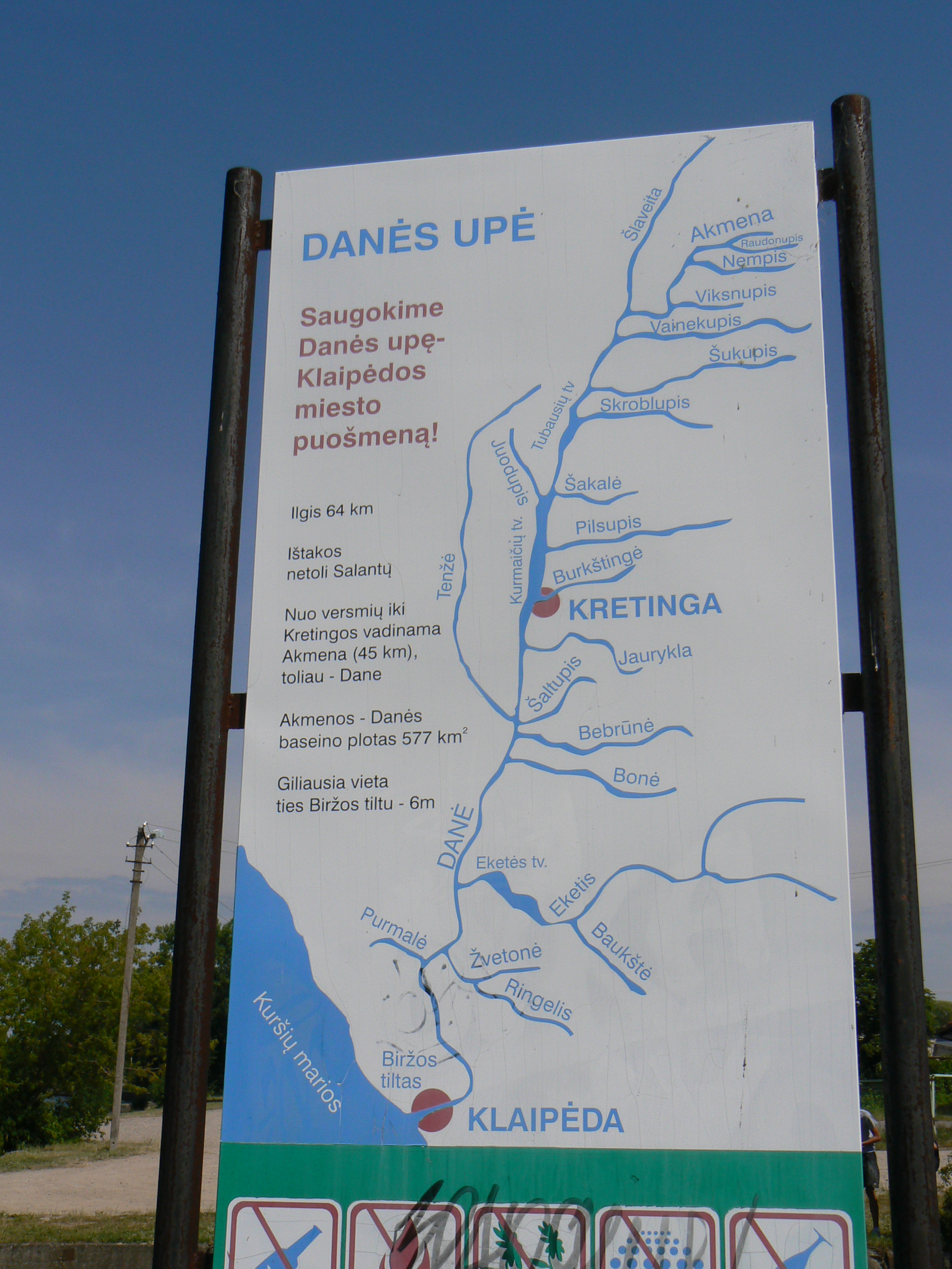 Diagramm of Danė's tributaries Česky: Schéma přítoků Danė na levém břehu řeky 100 m proti proudu od mostu Biržos tiltas v Klaipėdě